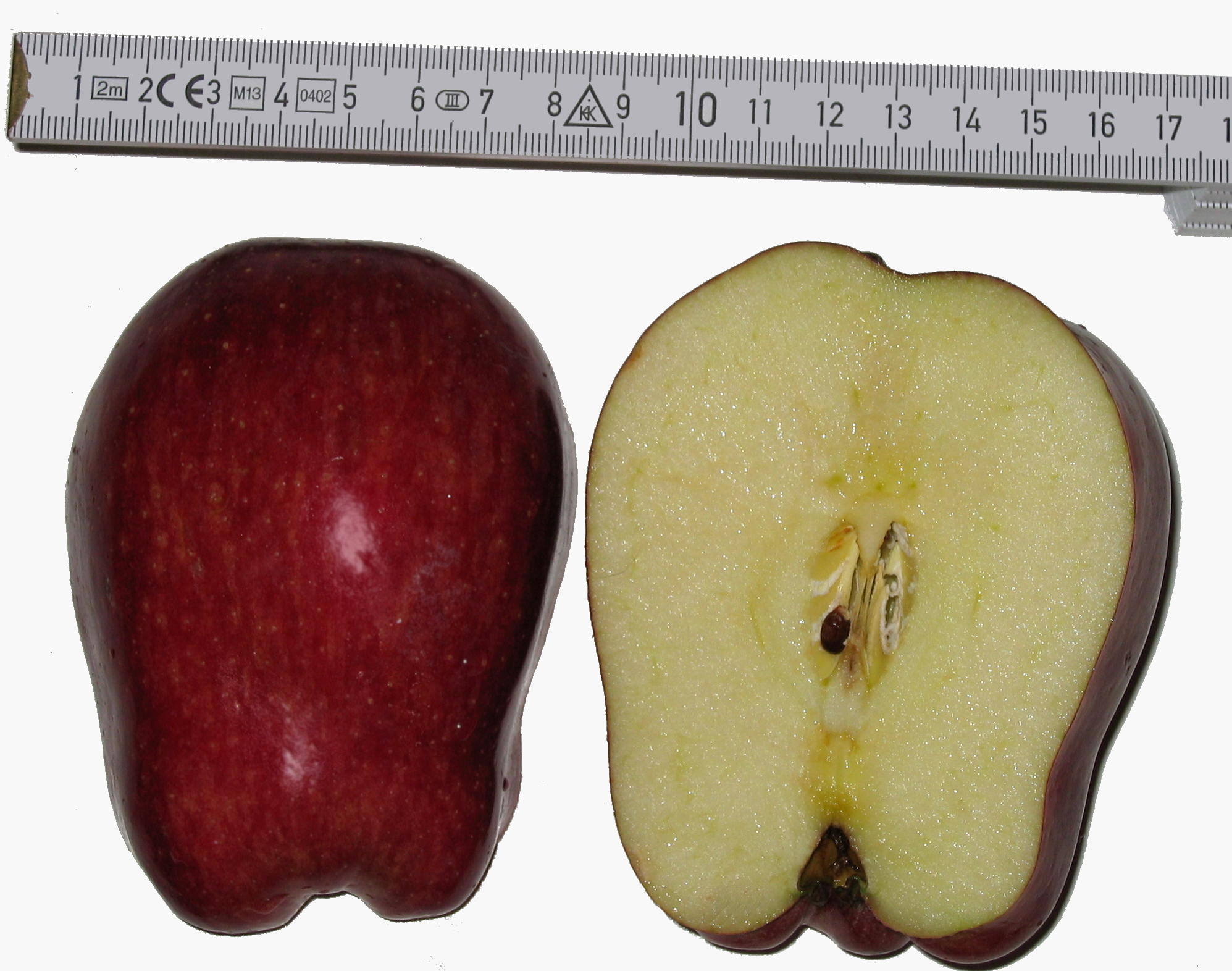 Unknown apple